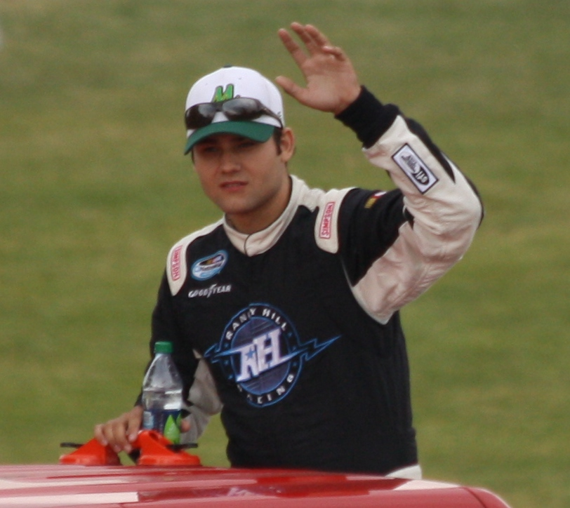 NASCAR driver Casey Roderick during driver's introductions at the 2012 Sargento 200 Nationwide Series race at Road America.